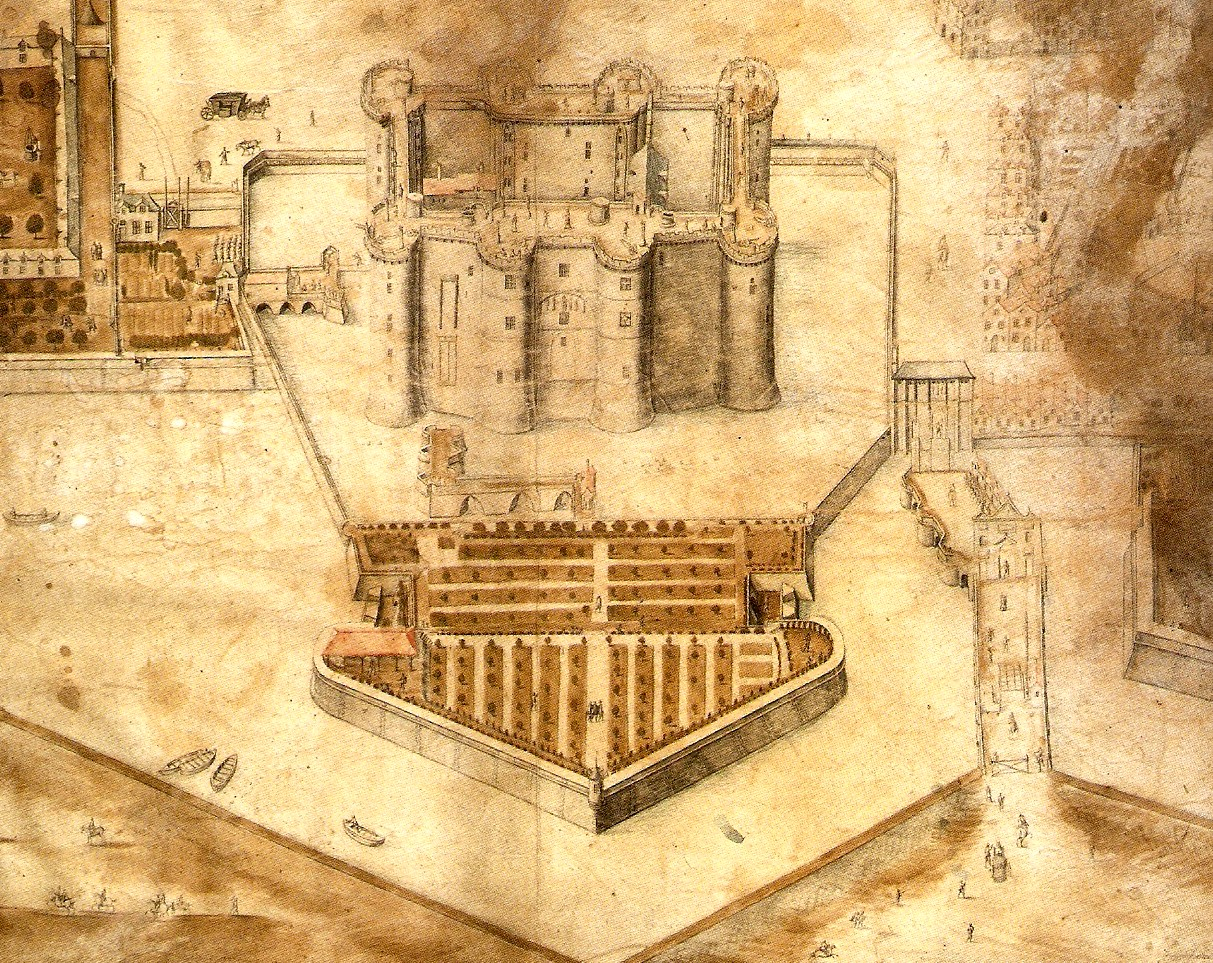 View of the Bastille, 1647